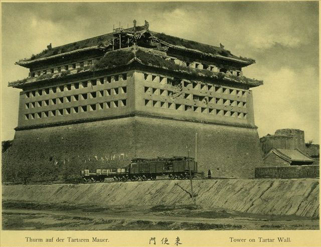 old photo from China 1900-1903, see the file's name for detail.